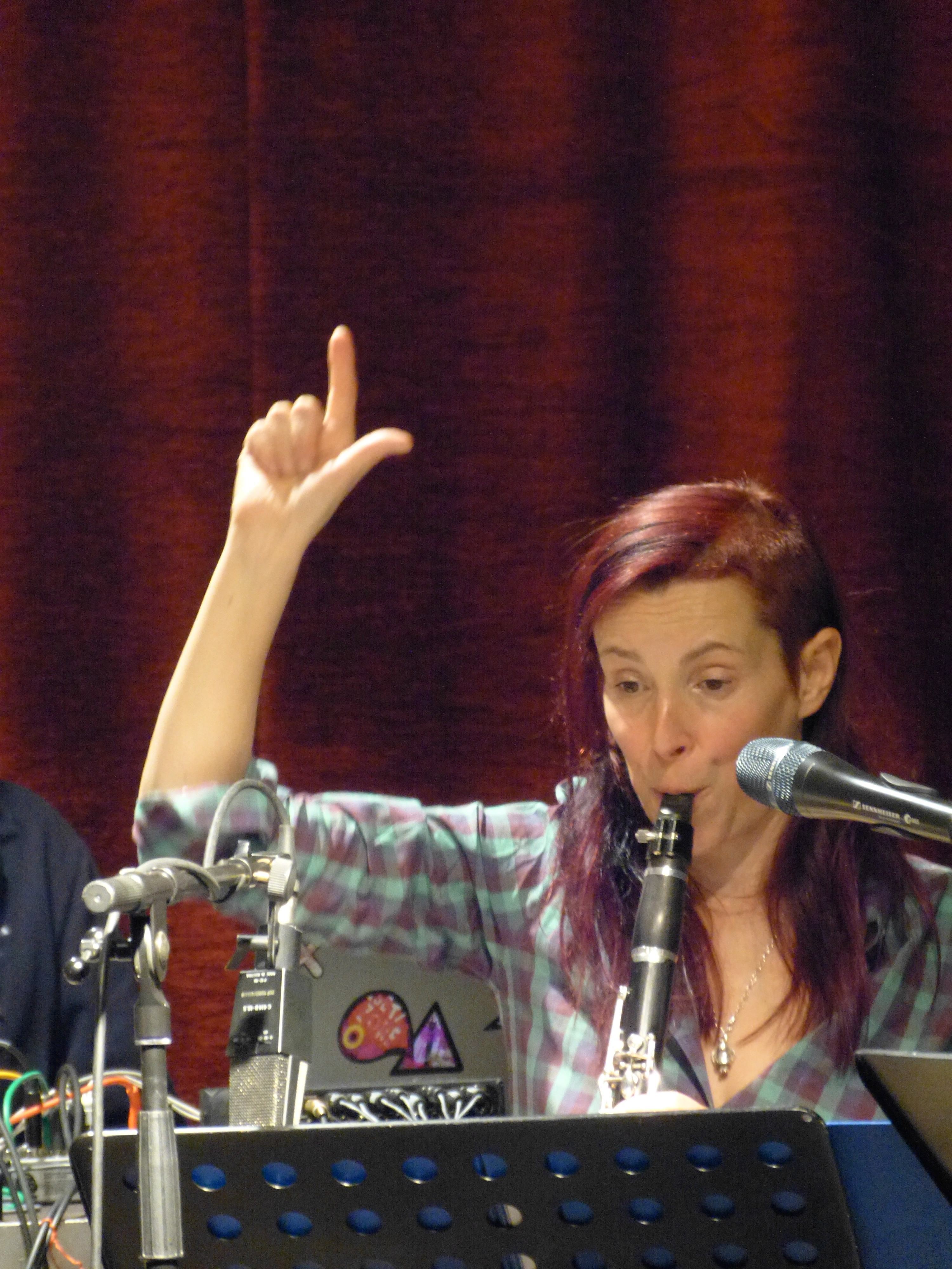 Isabelle Duthoit with the Ensemble Hübsch 8 at SWR New Jazz Meeting, Loft Cologne, Germany, November 24th, 2012